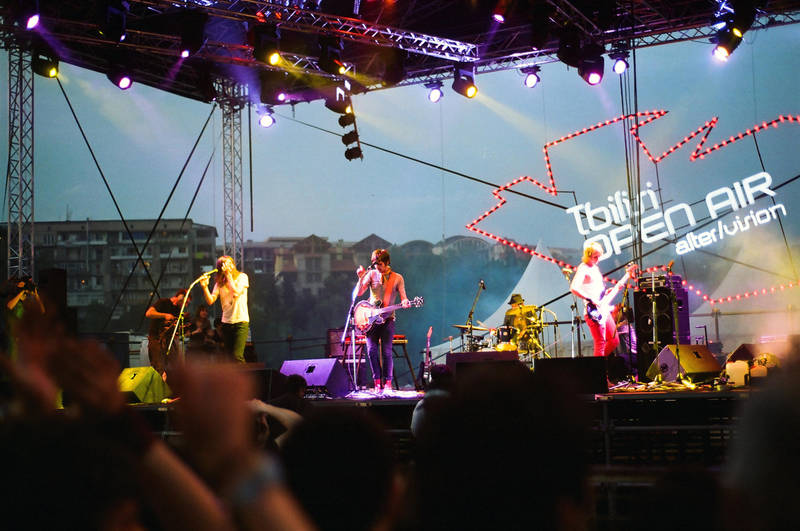 Danish band the Blue Van performing at Tbilisi Open Air on 17.05.2009.